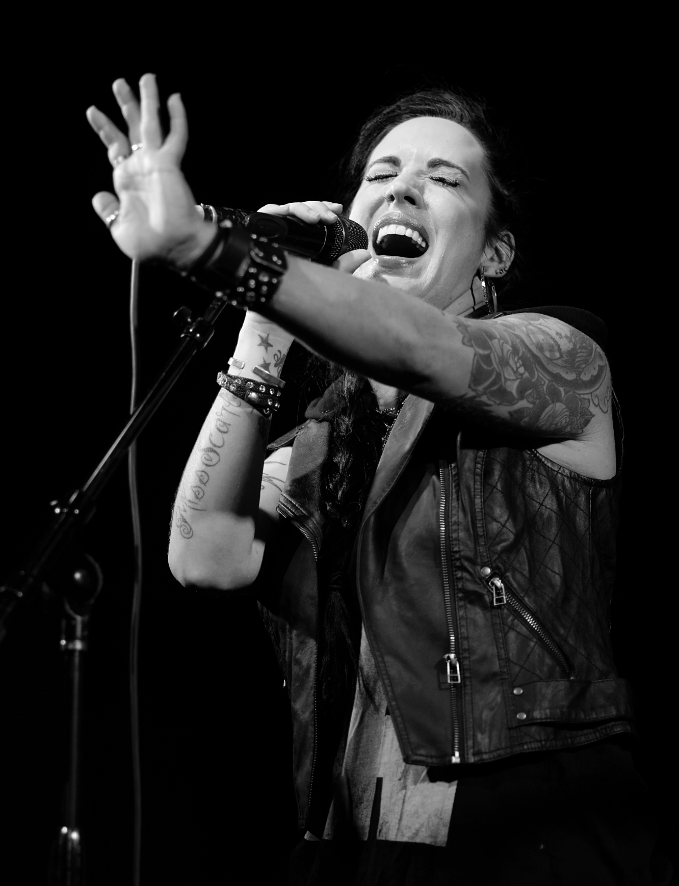 Kat Perkins at the Hotel Cafe in 2016